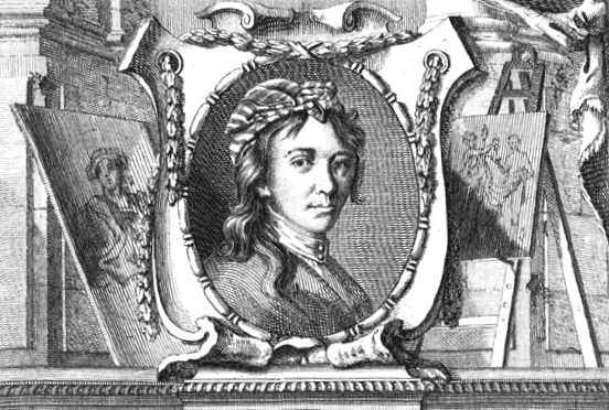 Biography of Gregoire Brandmuller with engraved portrait featured on page 31 of "Tome Quatrieme" of Jean-Baptiste Descamps' "La Vie des Peintres Flamands", 4 volumes (I 1753, II 1754, III, 1760, IV 1764)